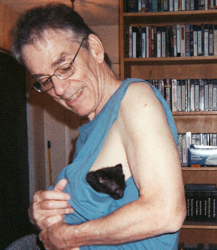 Tim Sullivan with his black kitten, Boris